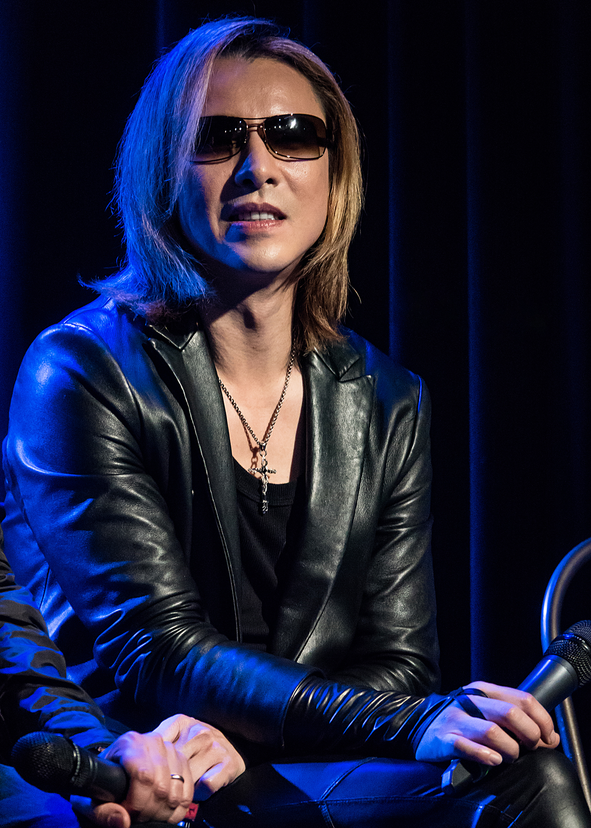 Yoshiki (of the band X Japan) performs live and participates in a Q&A session at Mezzanine nightclub in San Francisco California on Tuesday October 25th, 2016. The performance was part of the premiere screening of the film "We Are X", a documentary about Yoshiki's legendary rock band. The director of the film Stephen Kijak also participated in the Q&A session.